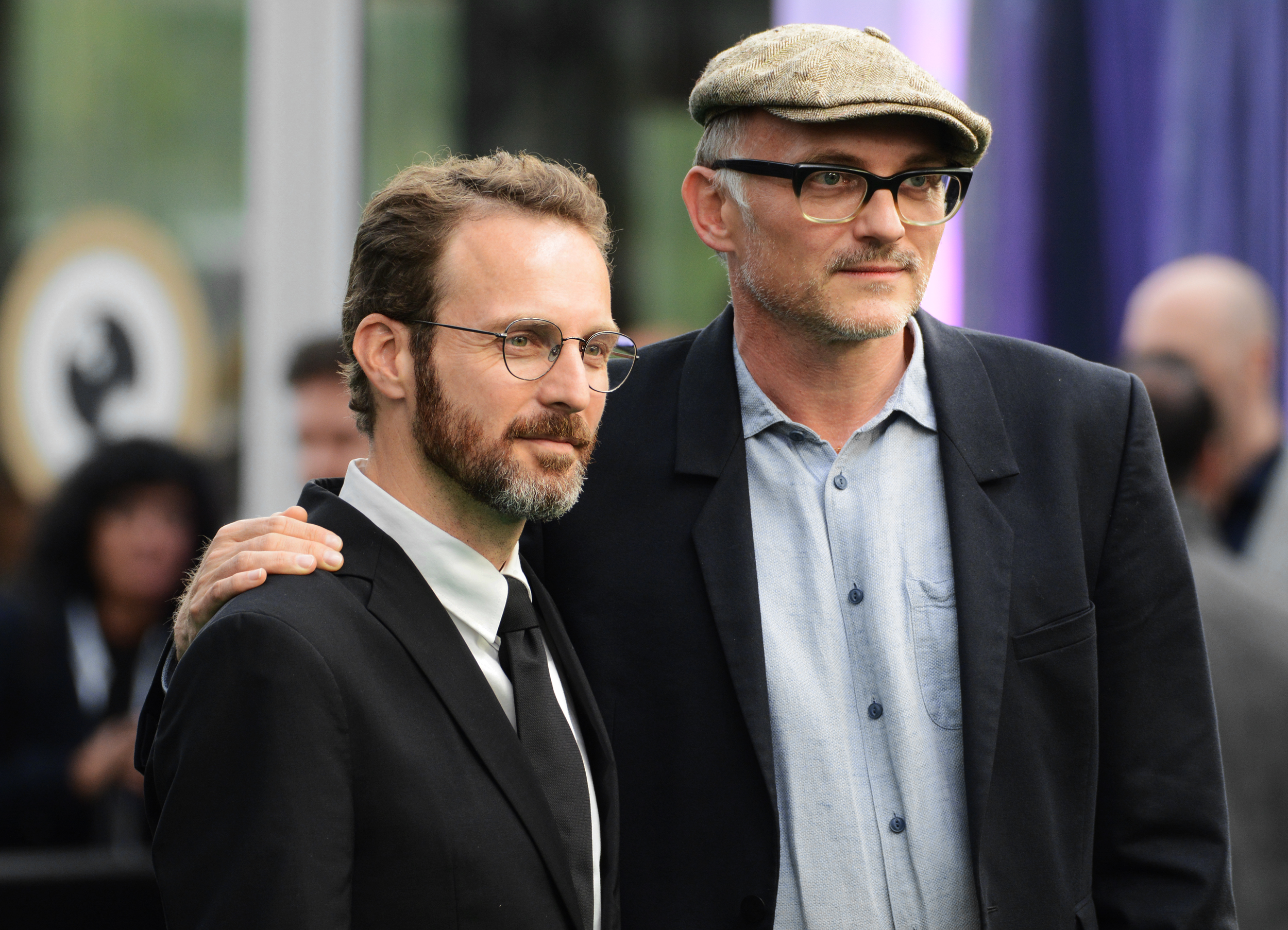 Cinematographer Gerald Kerkletz and director Markus Schleinzer attends the "Angelo" photocall during the 14th Zurich Film Festival on October 2, 2018 in Switzerland.